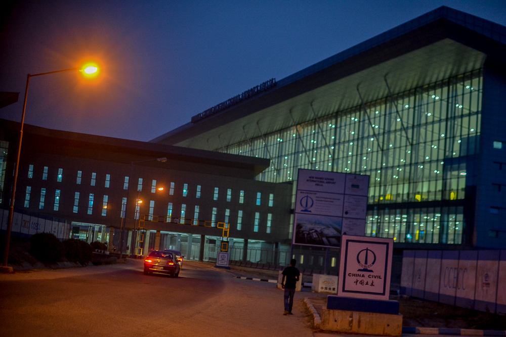 Nnamdi Azikwe Airport, Abuja